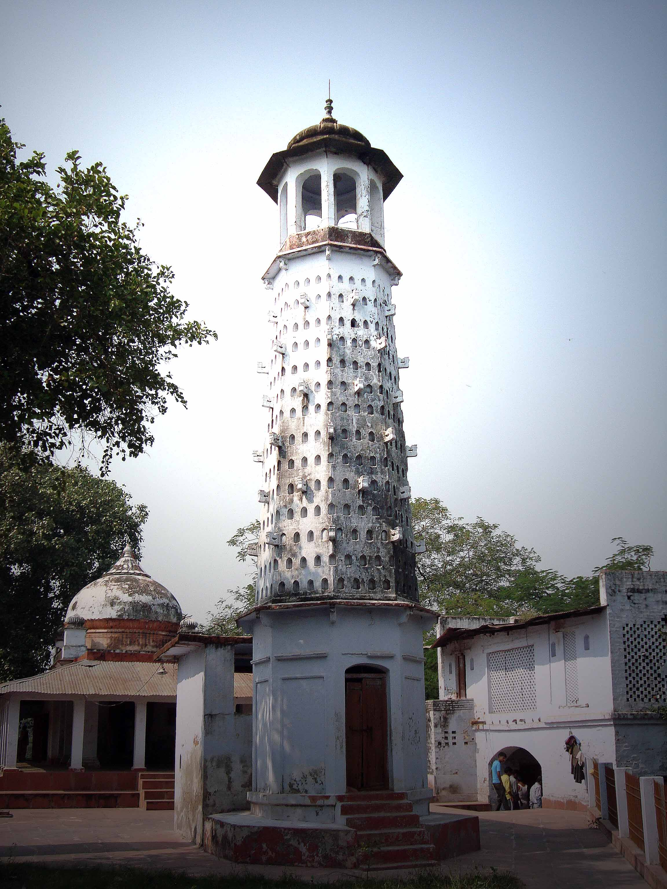 N-UP-L143 Mound Bithoor Kanpur